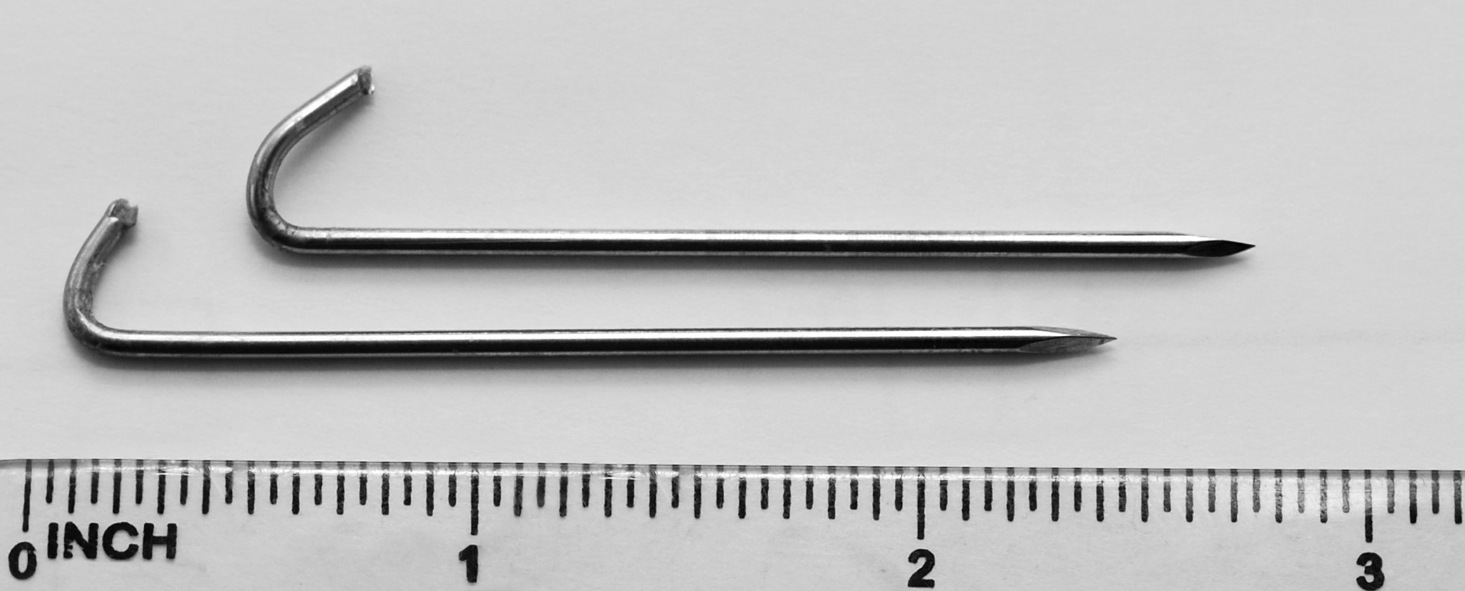 Wires used in treatment of a Distal Radius Fracture or Colles' fracture.